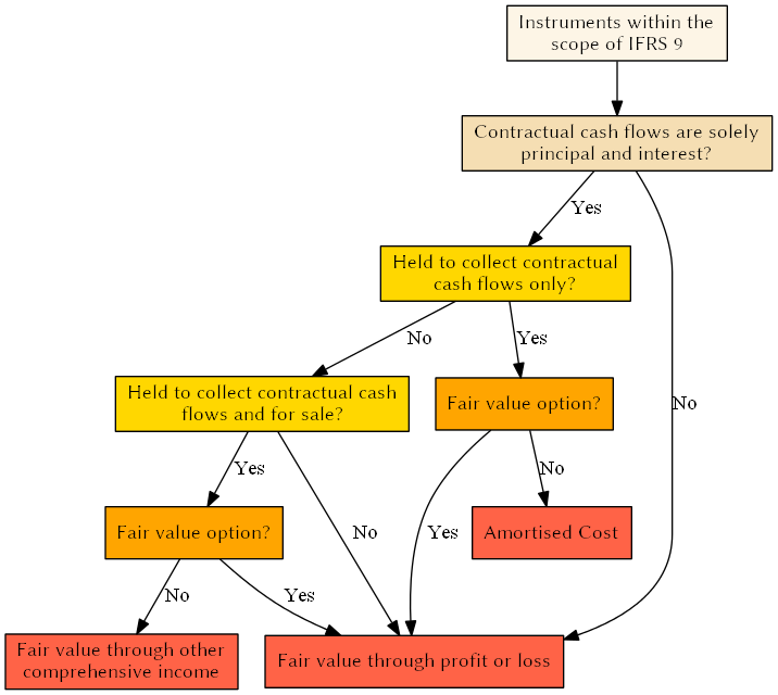 Overview on Classification Rules of IFRS 9